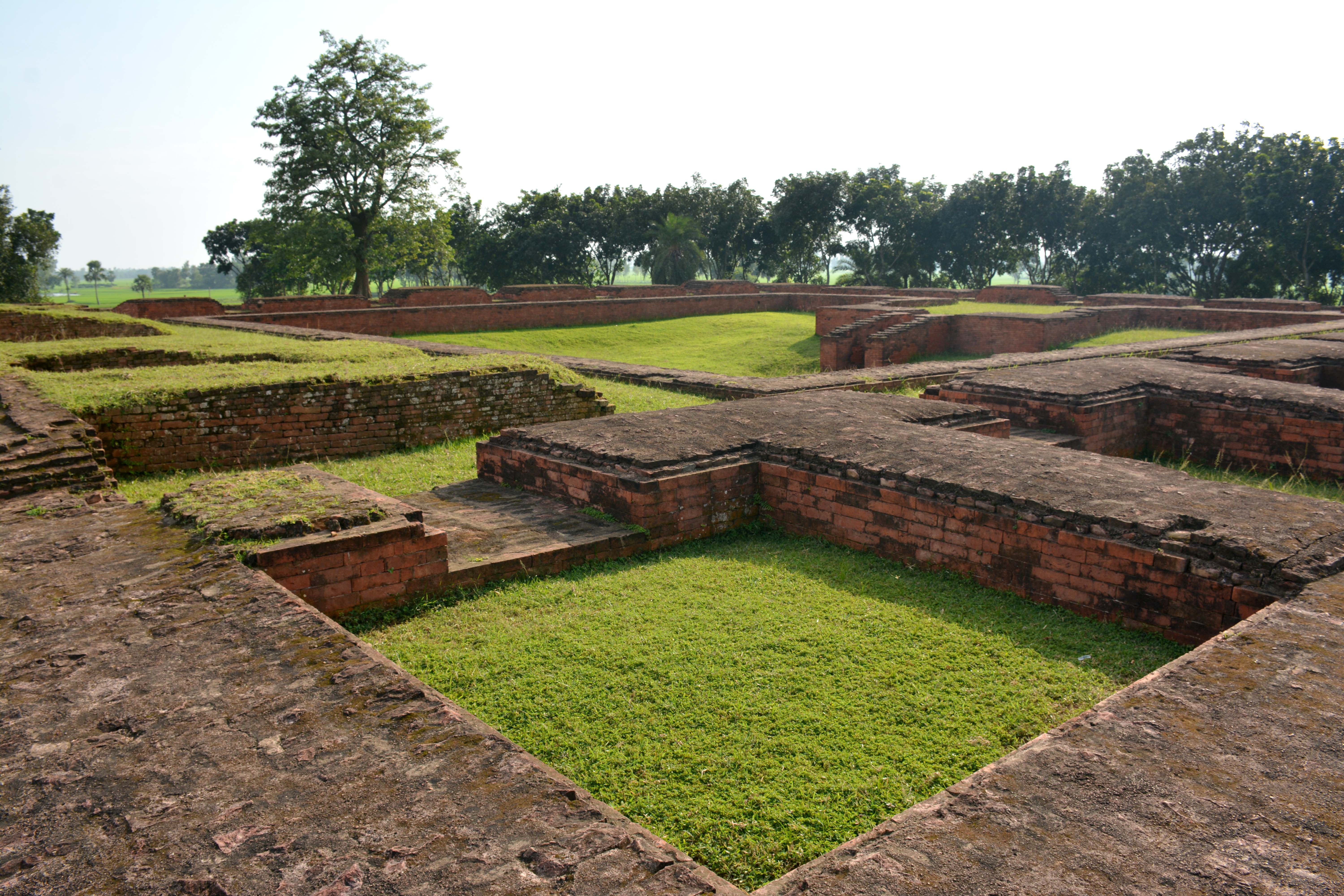 Narapatir Dhap, Vasu Bihar. It is the sign of culture of later period (10th-11th century AD.)